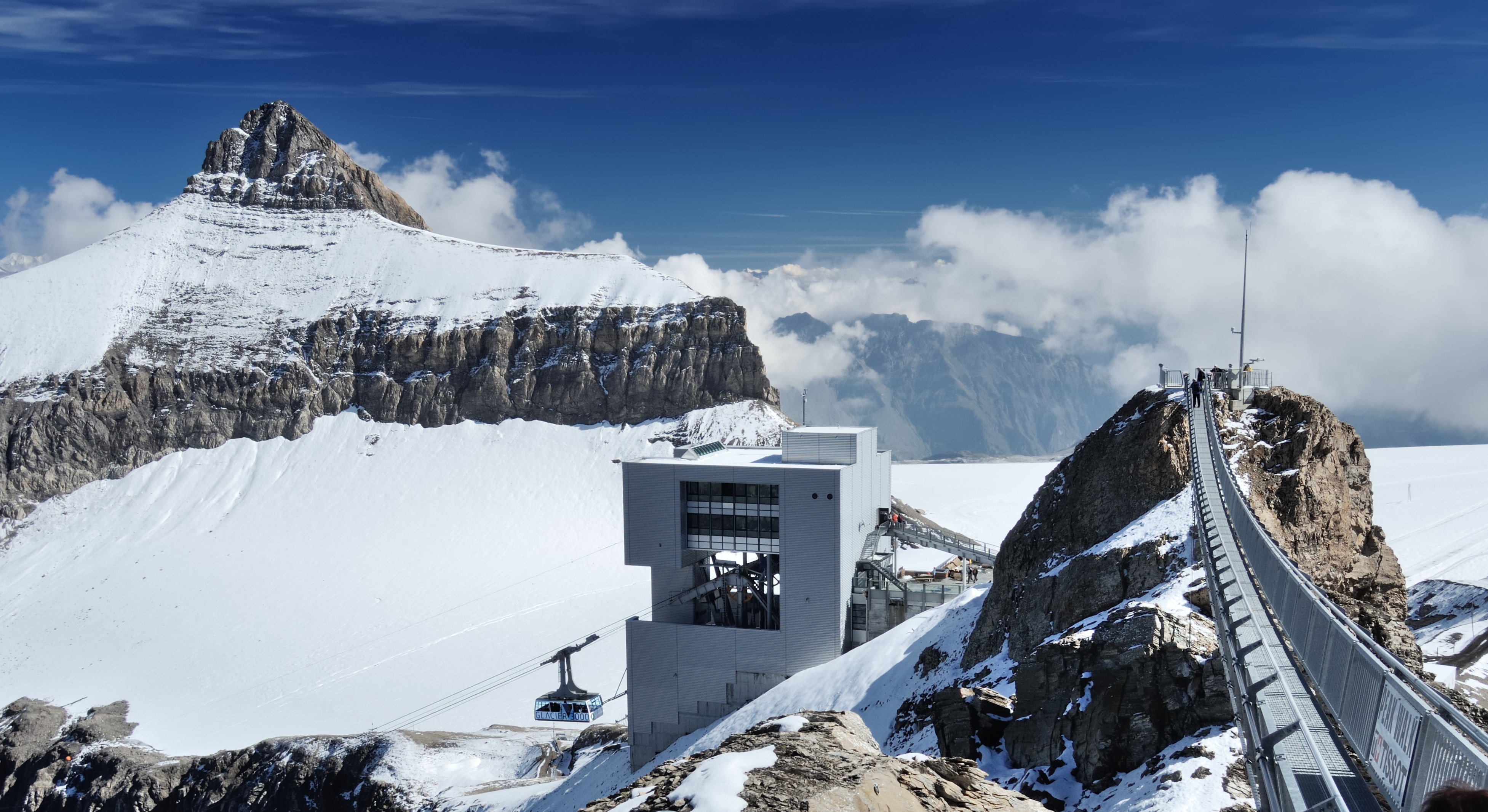 View from the summit of the Scex Rouge, the last summer day.